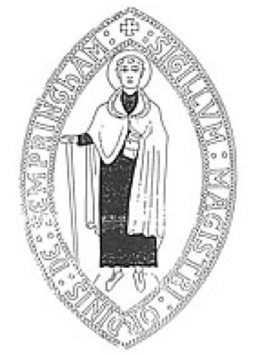 Seal of the Magister of Sempringham Abbey